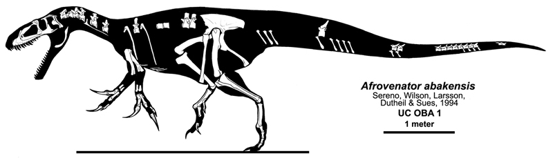 Skeletal restoration of Afrovenator abakensis based on the holotype and referred remains.